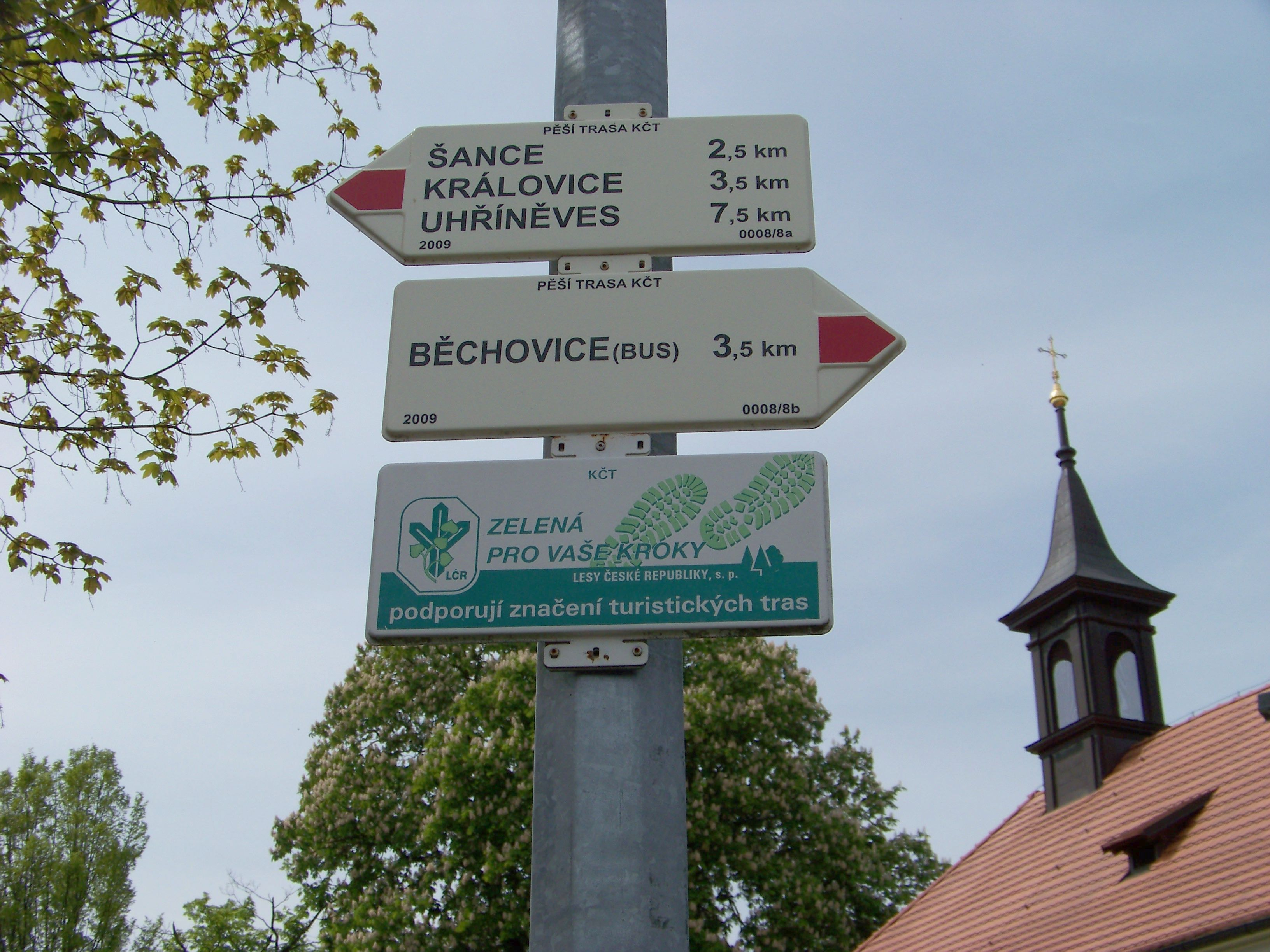 Prague-Koloděje, Czech Republic. Podzámecká street, a hiking fingerpost at the Church of the Exaltation of the Holy Cross.